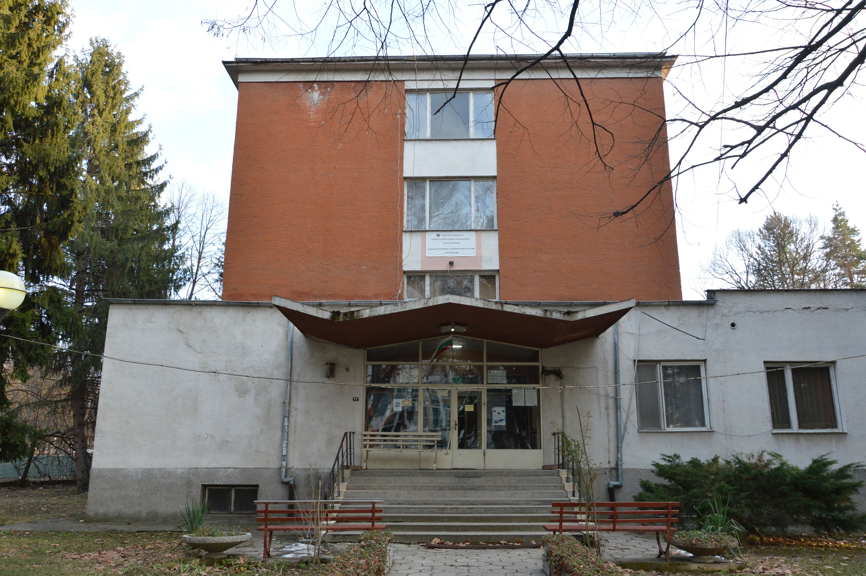 College of Energetics and Electronics Botevgrad, Bulgaria.